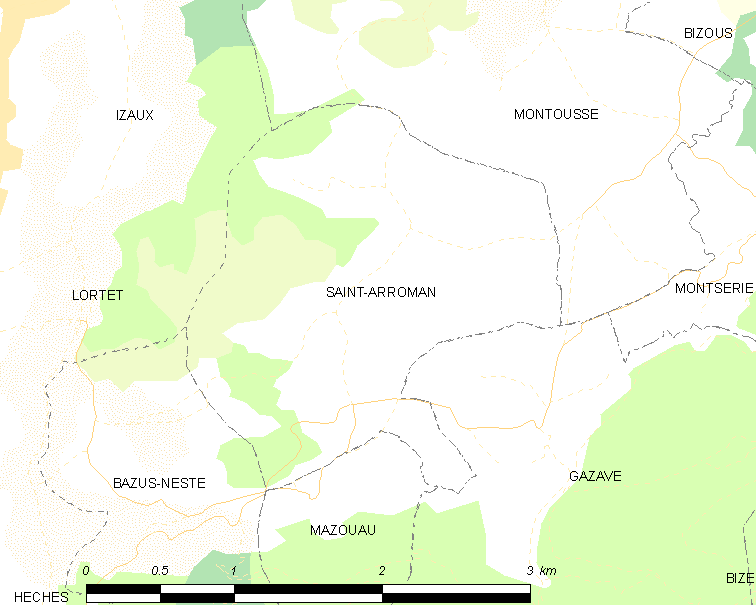 Map of French municipality